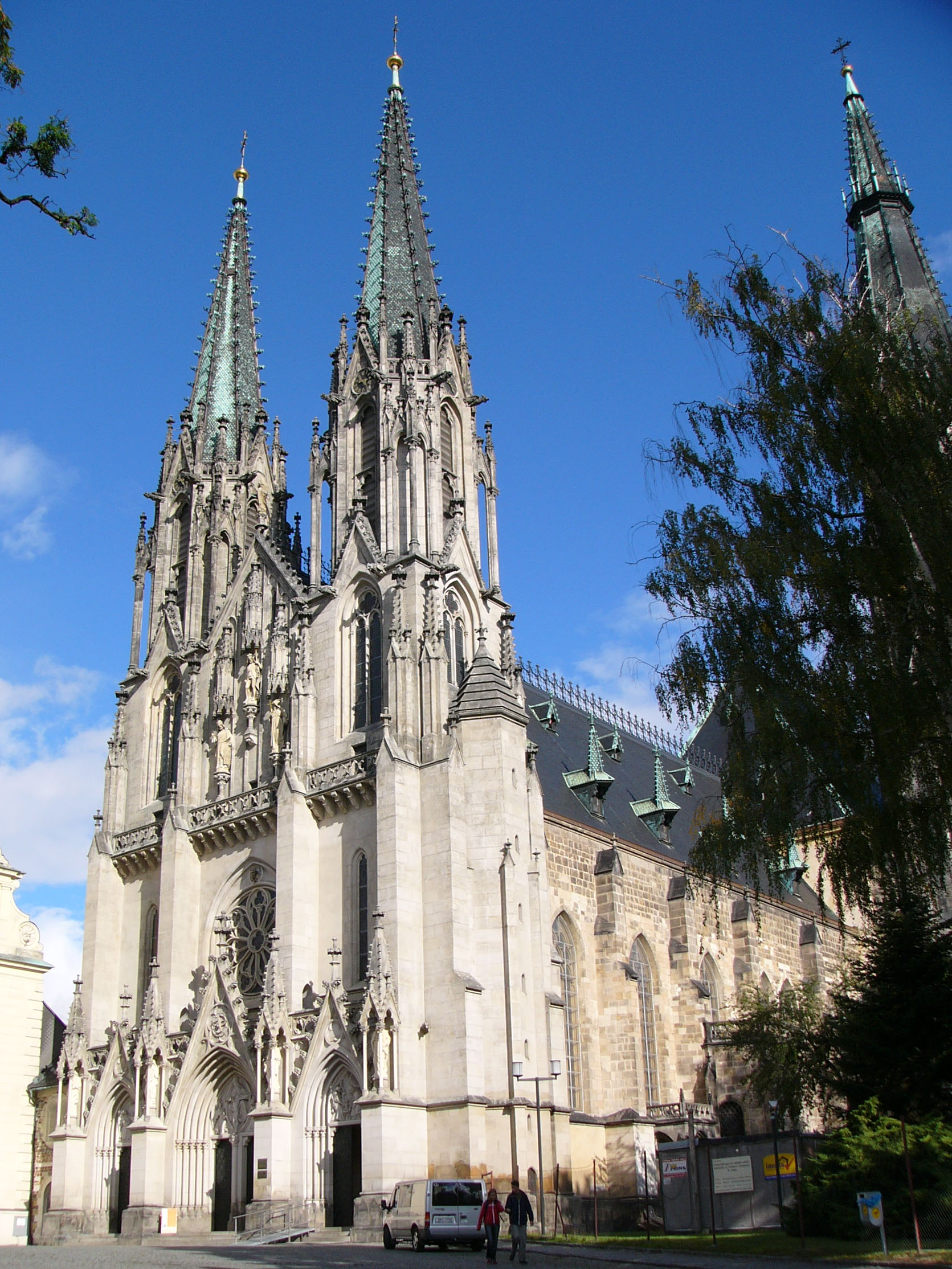 Saint Wenceslas Cathedral in Olomouc (Czech Republic).